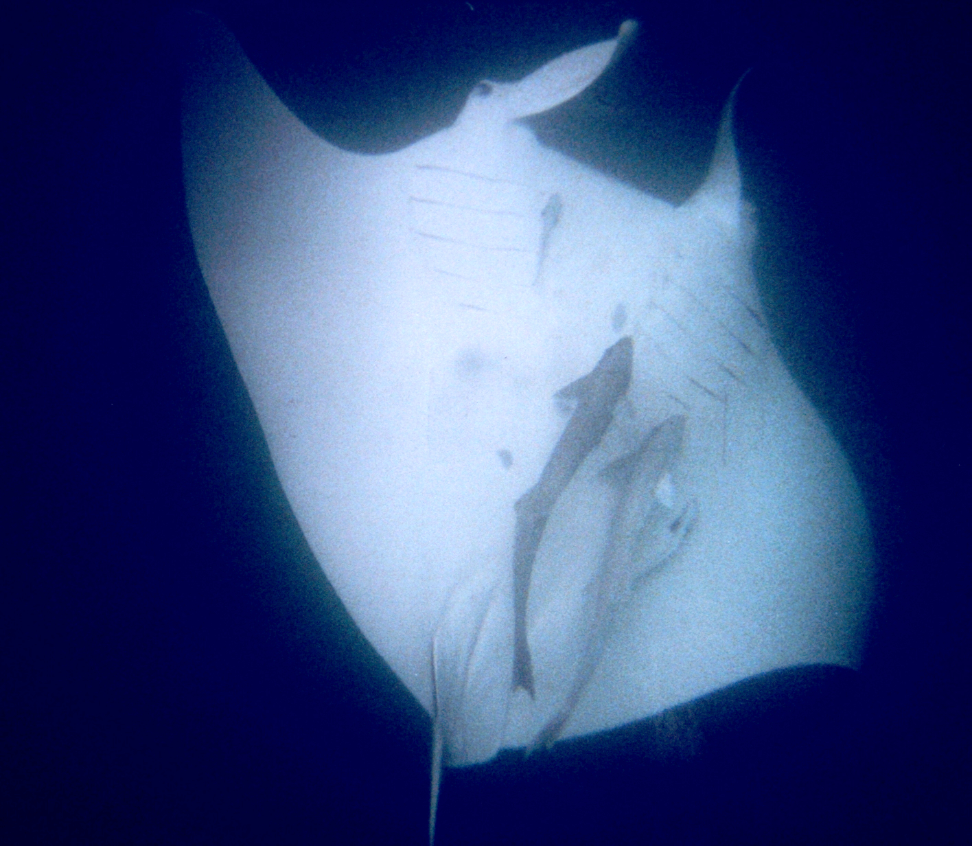 Reef Manta Ray swimms at his back showing belly marking and few remoras. Reef Manta Ray markings are as unique as human fingerprints. The picture was taken at Ningaloo Reef, Indian Ocean ofCoral Bay, Western Australia by Brocken Inaglory